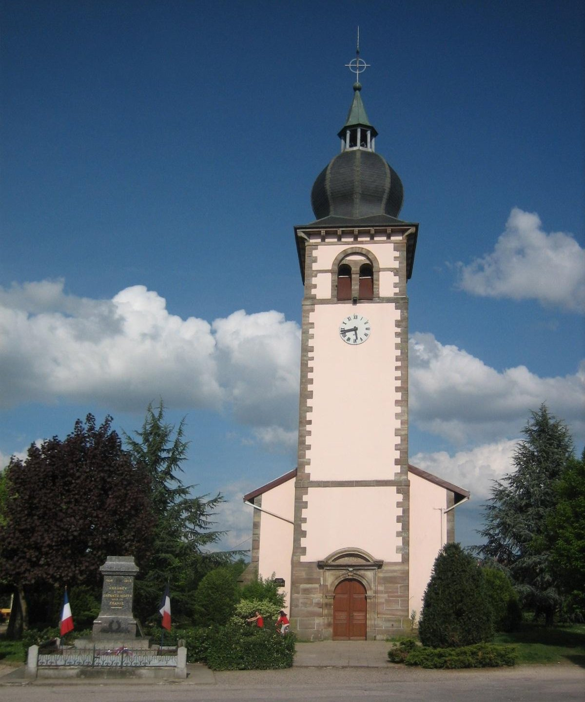 Church and war memorial of Uxegney (France).